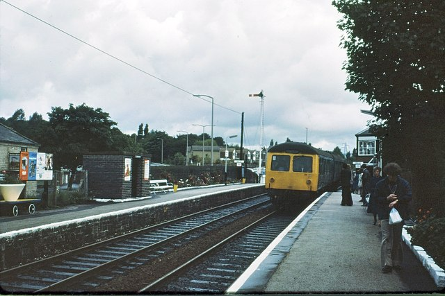 Bromley Cross railway station Original description: Bromley Cross station and signalbox 1978 A Blackburn to Manchester train arrives at Bromley Cross in 1978. The Cravens-built units were the usual trains on the line in the 1970s.